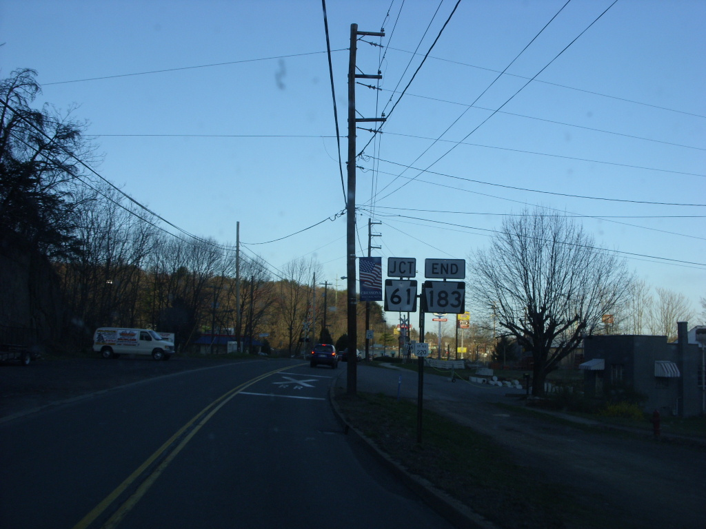 Pennsylvania State Route 183 northbound apporaching its northern terminus at Pennsylvania Route 61 near Schuylkill Haven.